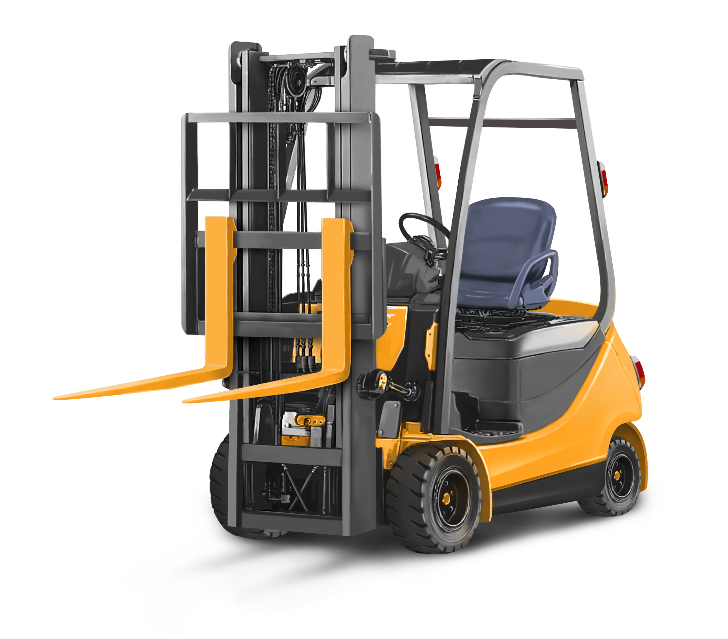 An orange photo realistic illustration of a forklift truck. The forklift has a blue seat and is pictured on a white background.